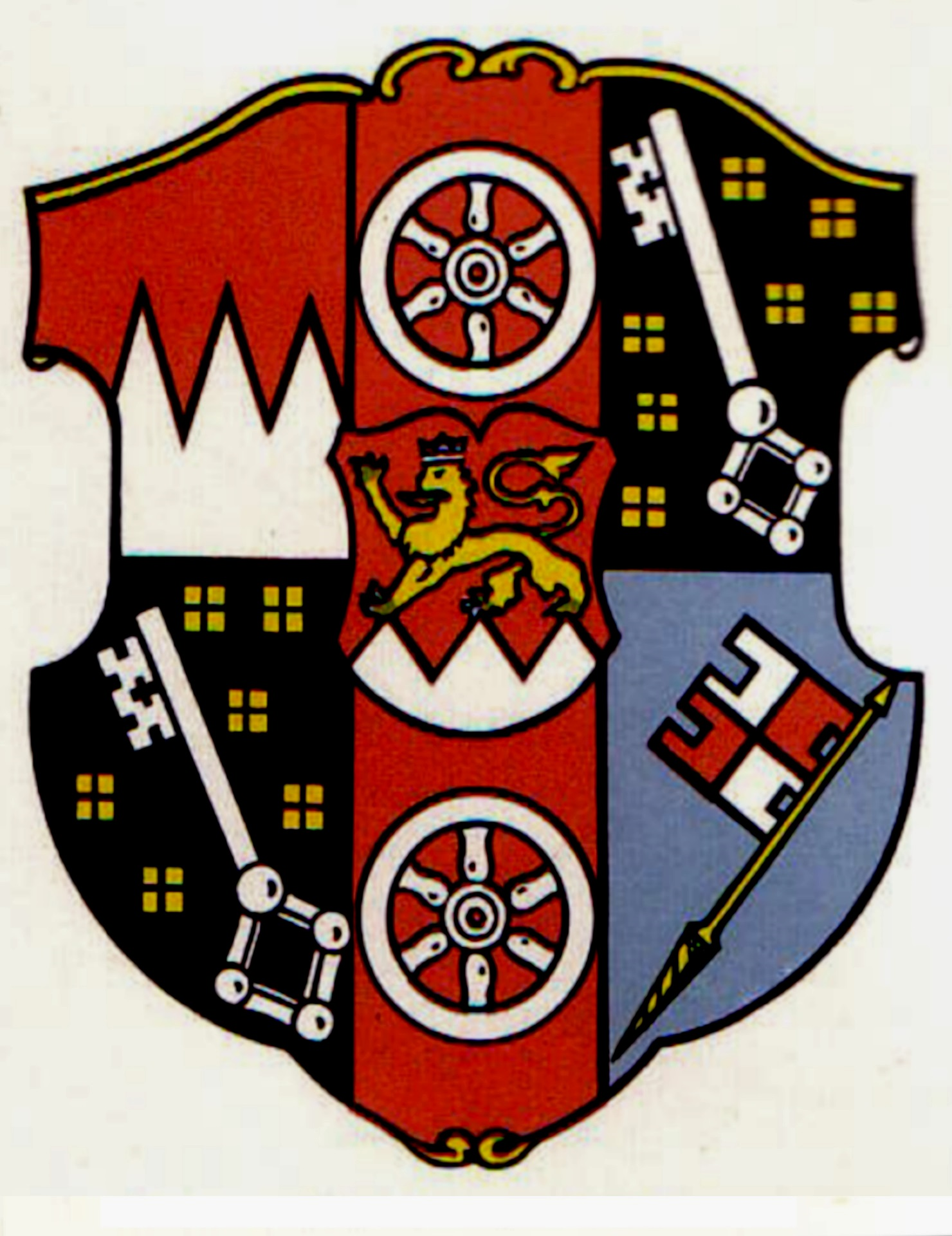 Johann Philipp von Schönborn